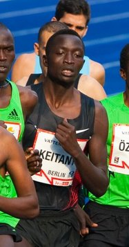 Haron Keitany during 2011 ISTAF in Berlin